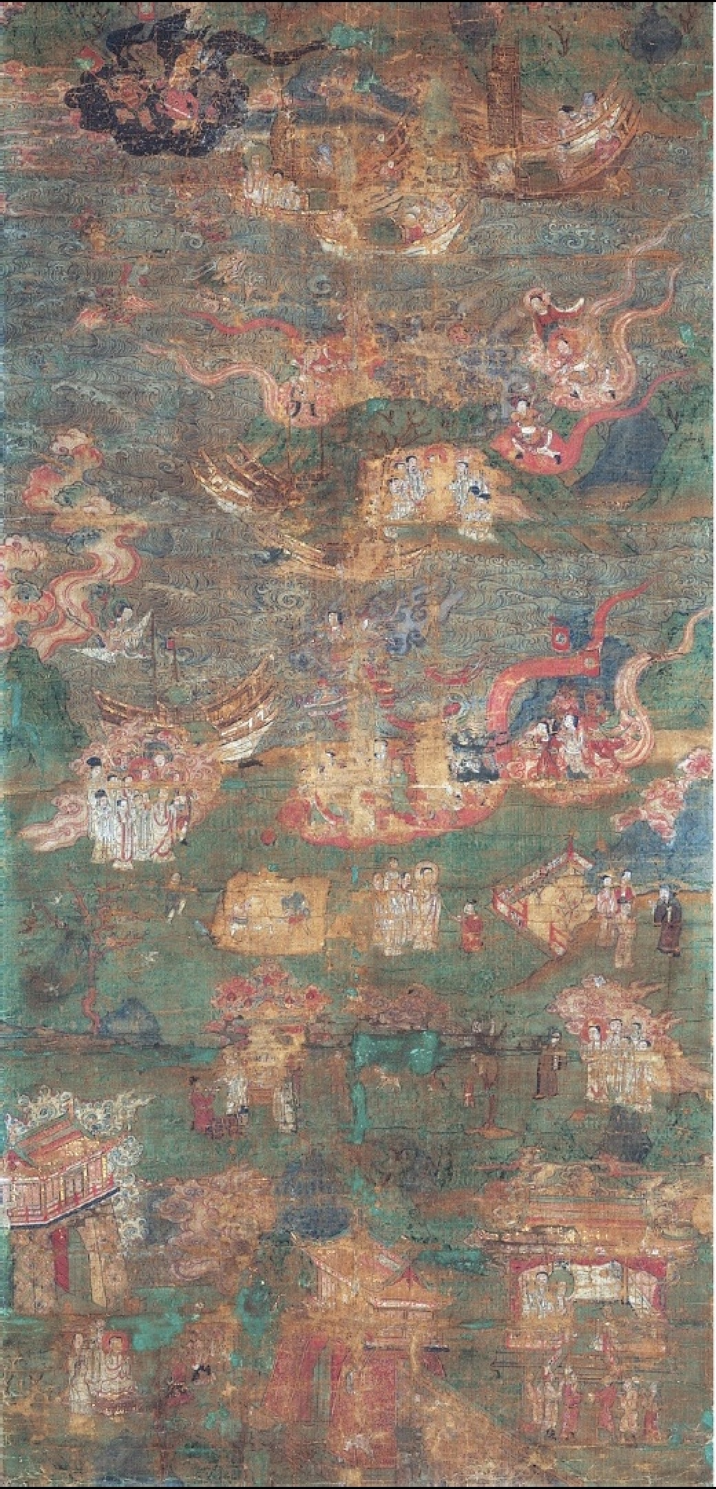 Episodes from Mani’s Missionary Work, fragment of hanging scroll, gold and pigments on silk, H: 119.9 cm, W: 57.6 cm, southern China, 14th/15th century (private collection, Japan).